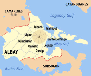 I used two files to make a new map with Mayon and its surrounding municipalities. The following files are: CC BY-SA 3.0, GFDL CC BY-SA 3.0, GFDL